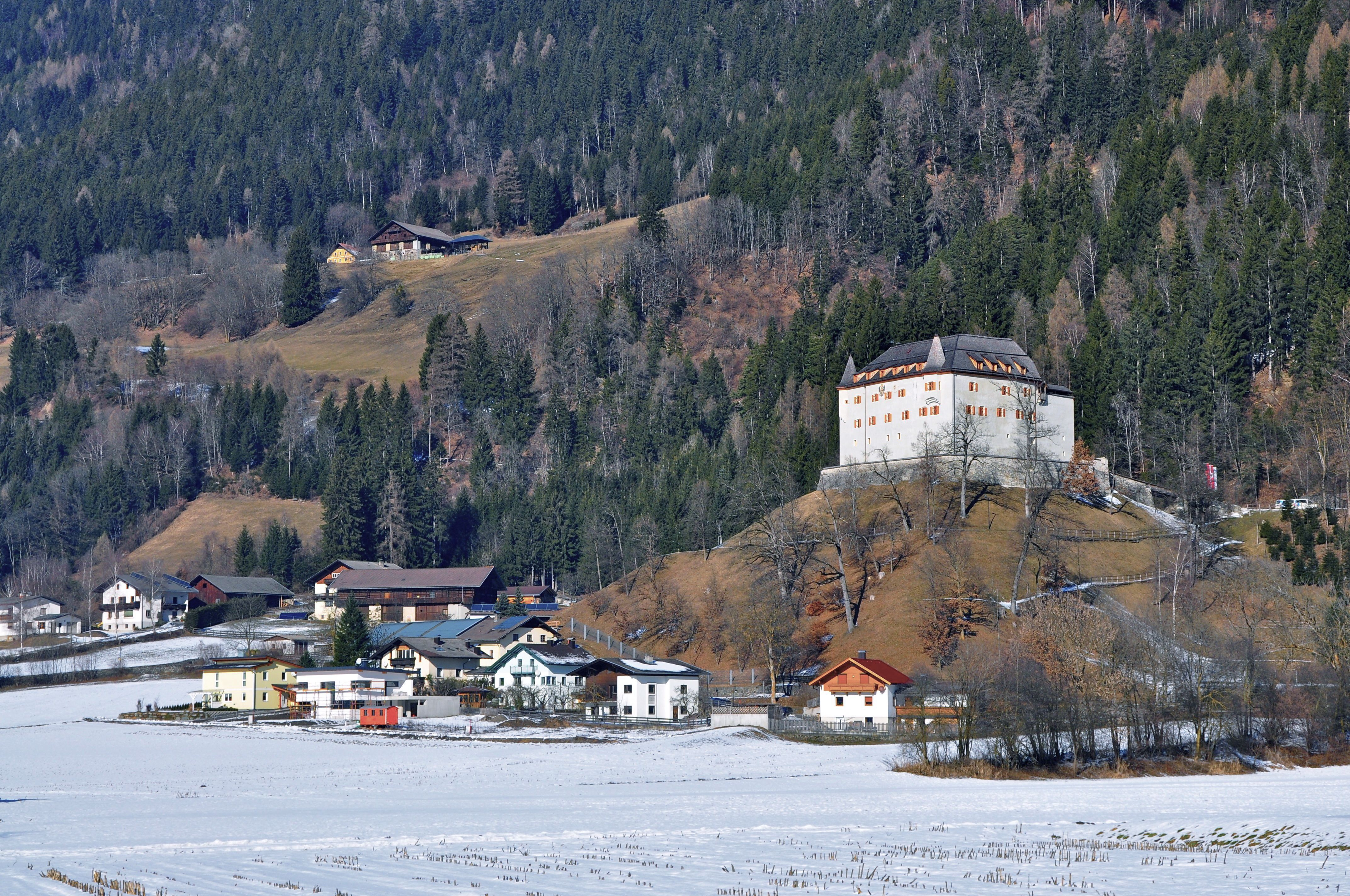 Castle Lengberg, municipality Nikolsdorf, district Lienz, Tyrol, Austria / EU